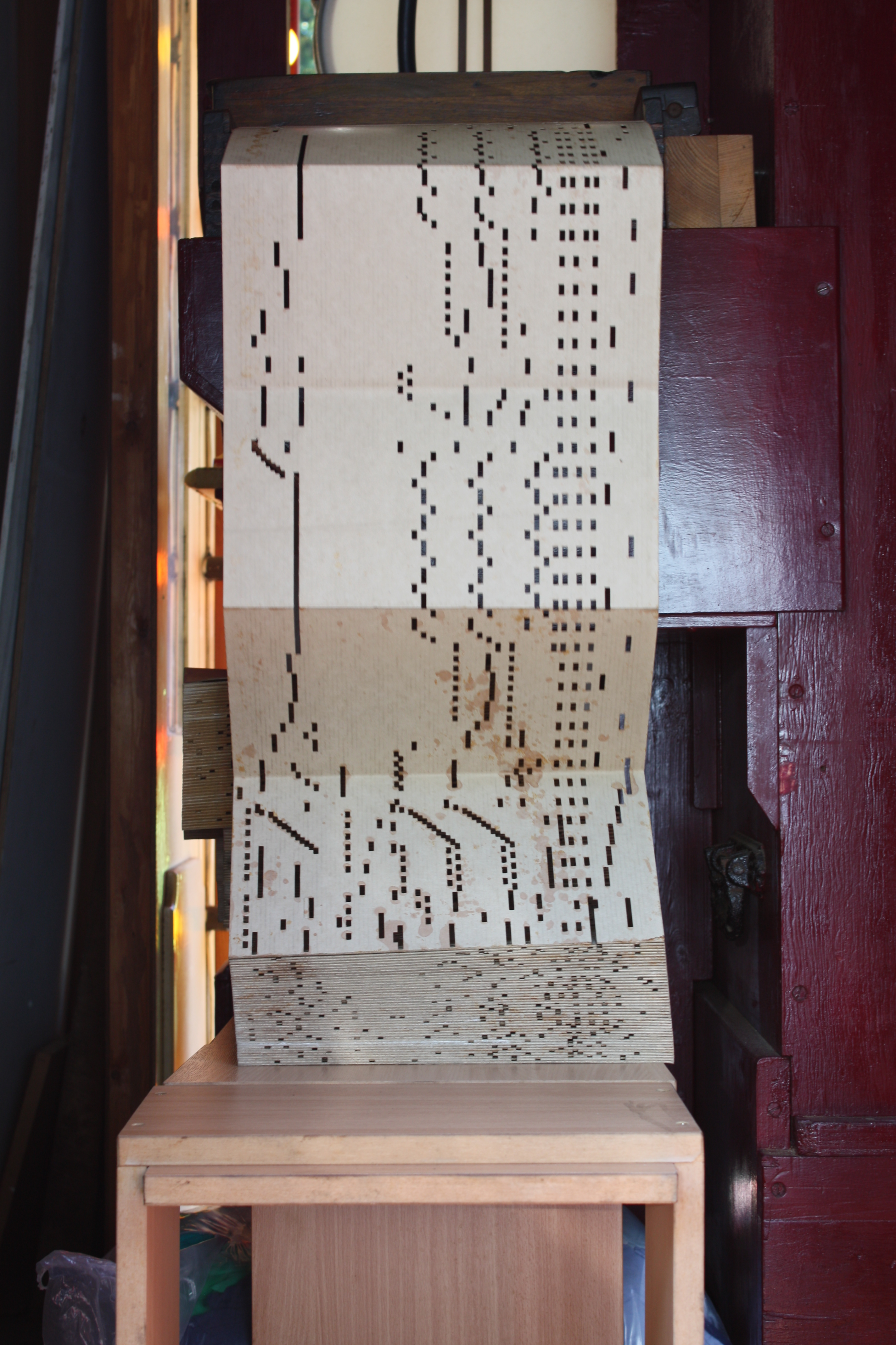 Fairground organ paper roll coming out of the reader